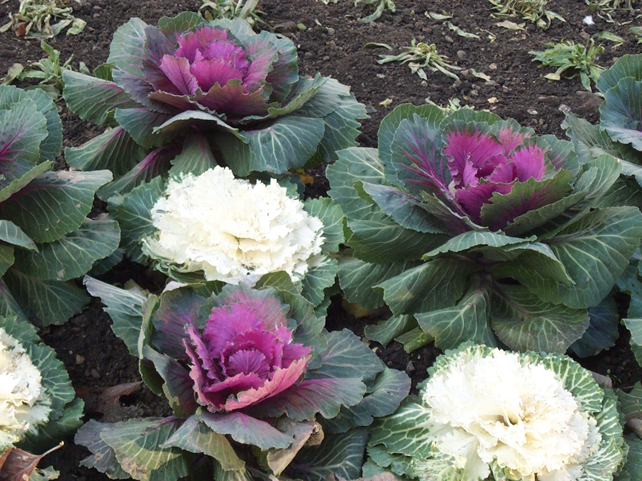 Ornamental cabbages in a council flower bed in Bedford, Bedfordshire, England.